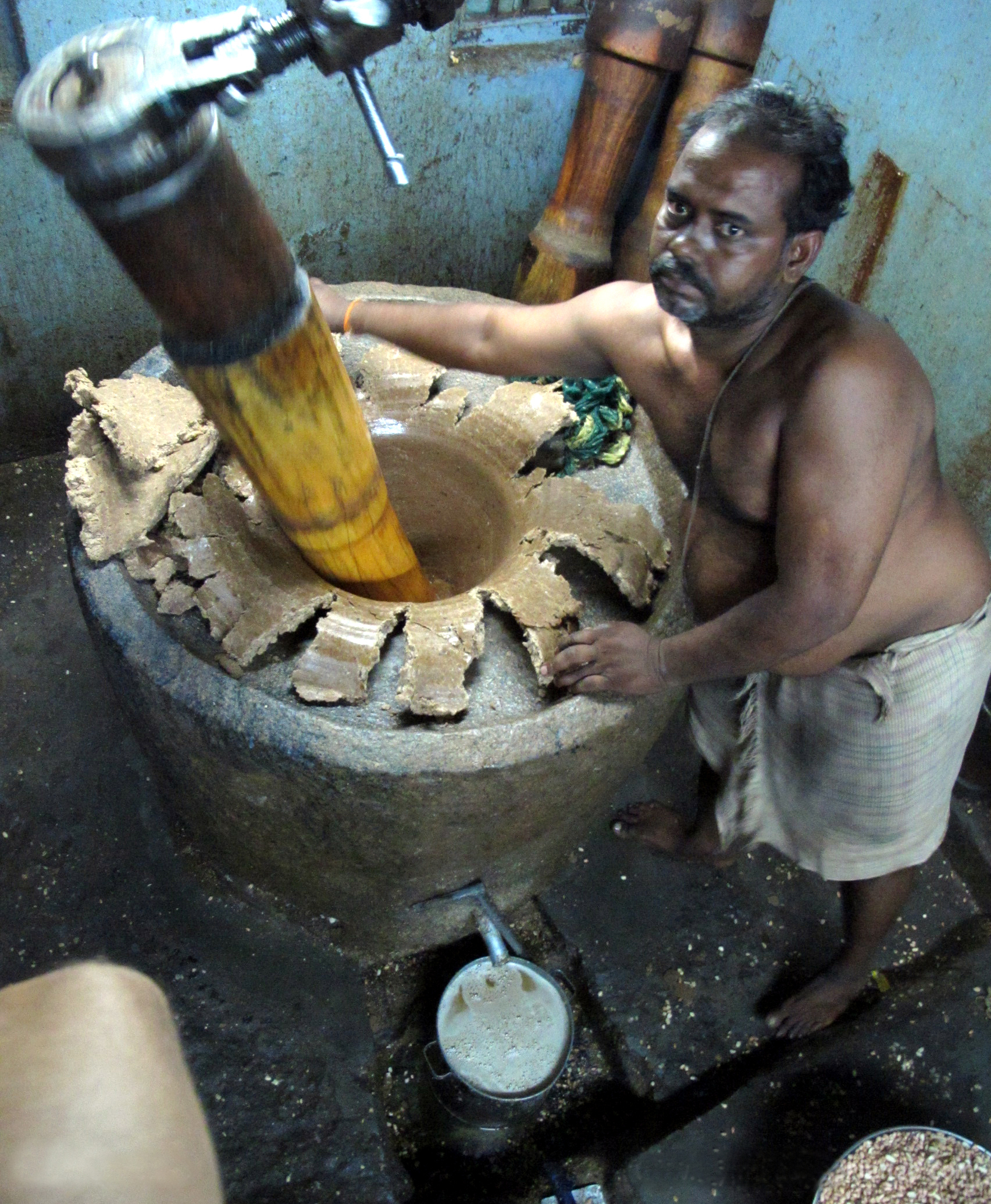 India is home to sesame but Tahini - sesame paste - is nowhere to be found. Oil is extracted by ghani by traditional cold press process. Although farmers from Rajasthan to Tamil Nadu harvest sesame and every little village had it's own mill and oil press shop, I couldn't find sesame paste. So for my favor dish, Tahini, I had to get sesame oil, buy seeds at the market, then grind the seeds in a mortar & pestle or a 'mixi' (little chutney blender, more like a coffee bean grinder) while adding in the oil until reaching a smooth paste consistency. So does the paste disapear to in the process of turning seeds into oil in those mills ? Well, it's a stage on the process but it never stops there. After 2 hours of pressing the seeds the oil is all drained and the leftover 'cake' (as seen in the photo here) is given out to cows...